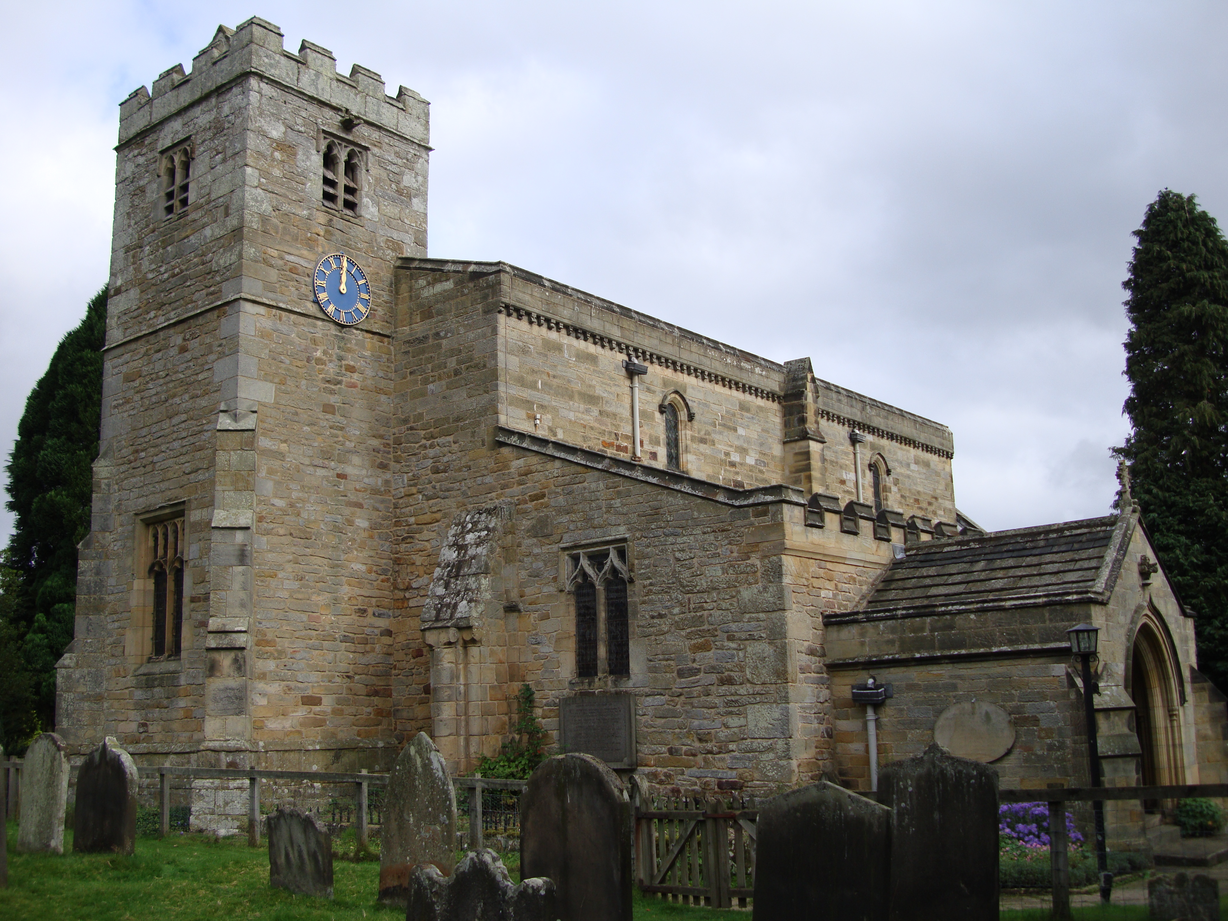 Photograph of Lastingham Abbey, North Yorkshire, England